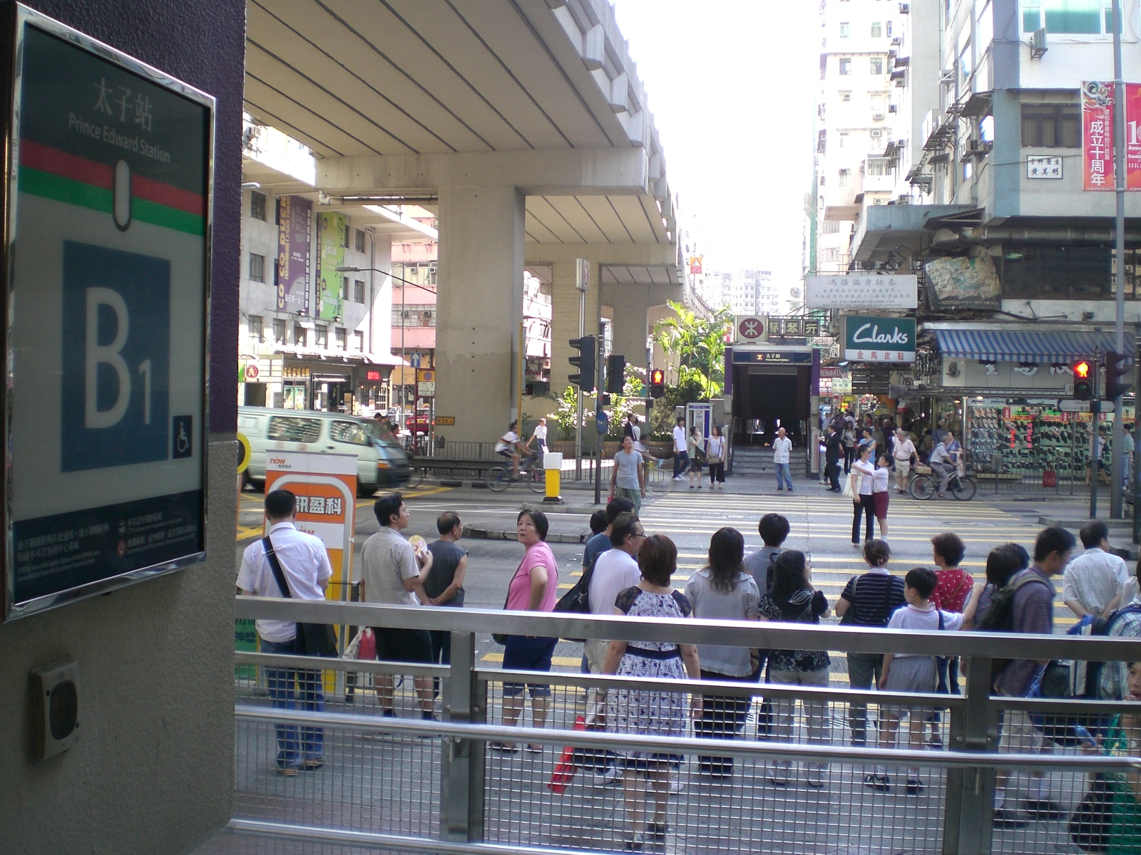 油尖旺區, 香港地鐵, 太子站, Prince Edward (MTR), Mongkok